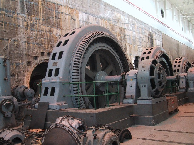 Generator Unit 16 at Pointe du Bois station, Manitoba Hydro. This is the oldest generating station still in service with Manitoba Hydro. Until 2001 the plant was operated by Winnipeg Hydro. These units are double horizontal Francis turbines. Generators are made by ABB and bear the pre-WWII ASEA logo. This picture was taken by me November 2002 and is released to the public domain.